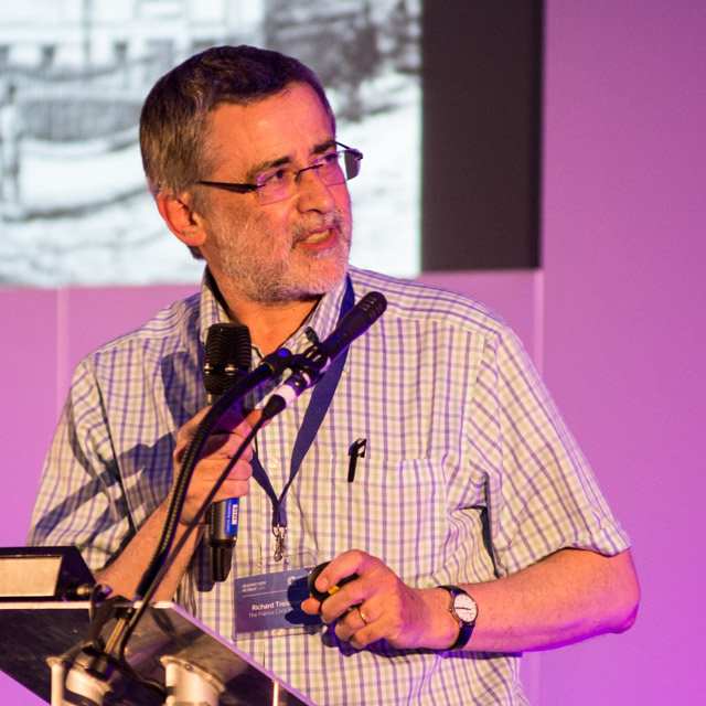 Sir Richard Treisman speaking at a conference in 2015